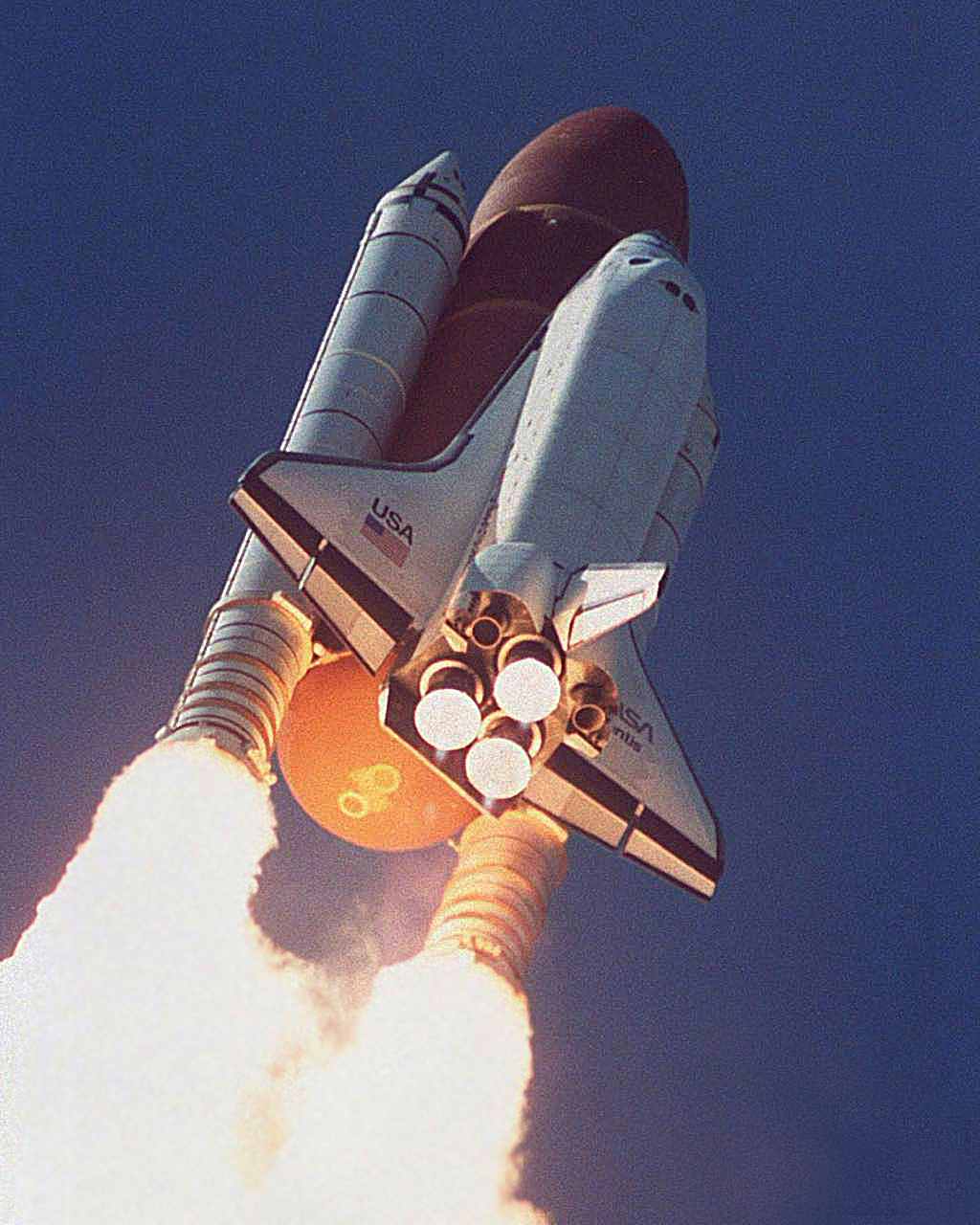 Launch of Atlantis on mission STS-34 seen from below.